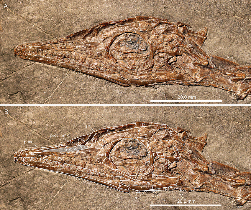 Skull of specimen PIMUZ T 4822 of Macrocnemus bassanii. (A) Photograph; (B) interpretative drawing superimposed. Anatomical abbreviations are defined in the source.